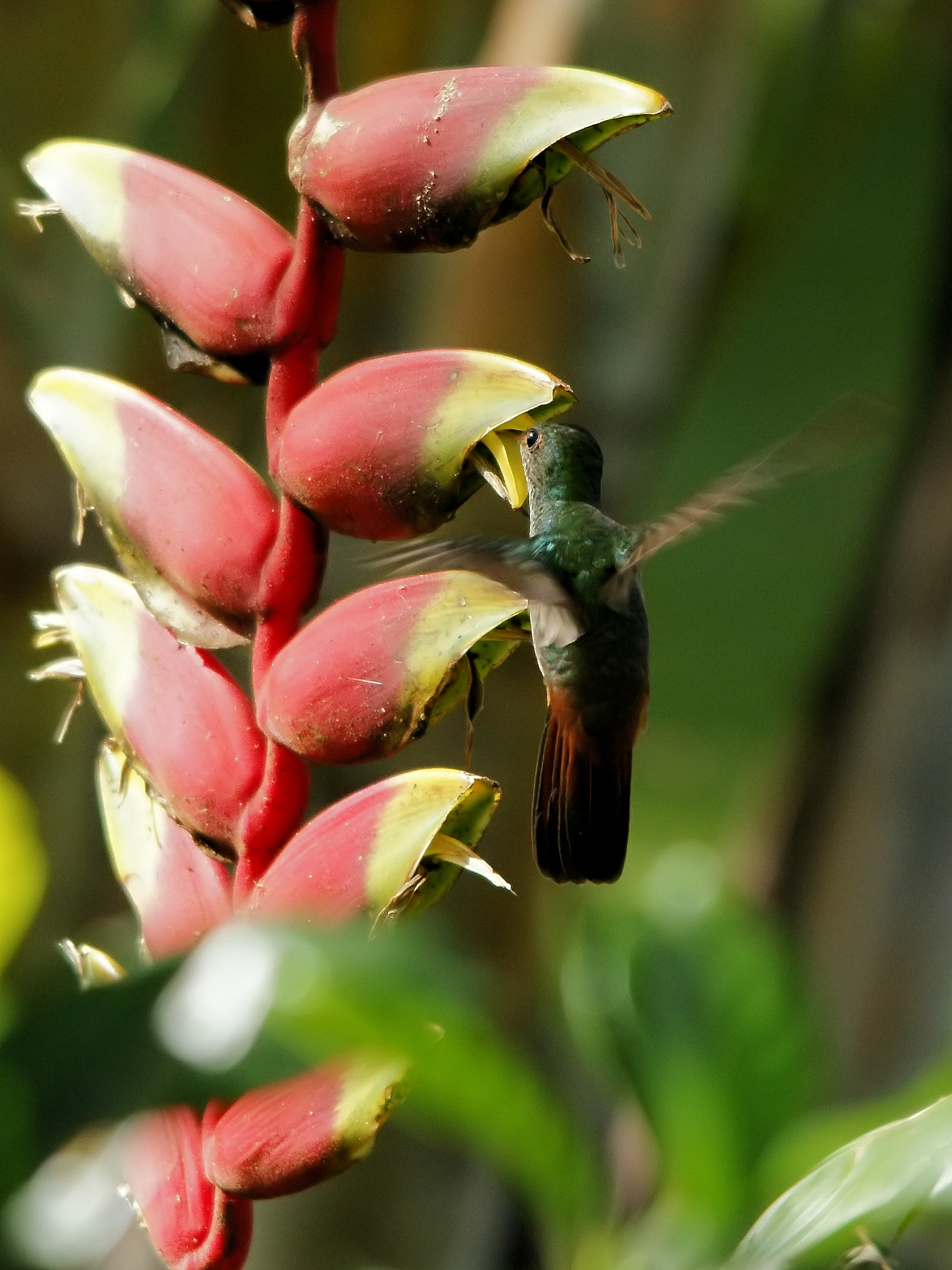 Rufous-tailed Hummingbird at Margarita la Garita, Alajuela, Costa Rica.